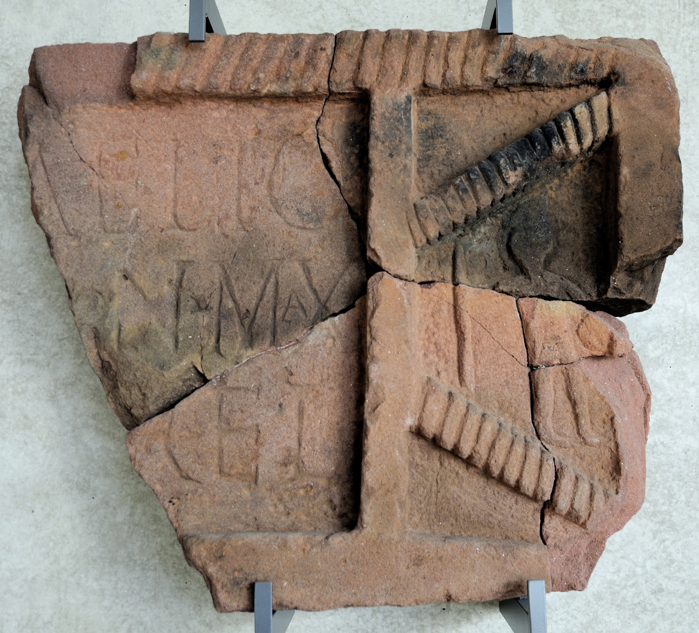 Picture taken in the Roman history museum in Osterburken.